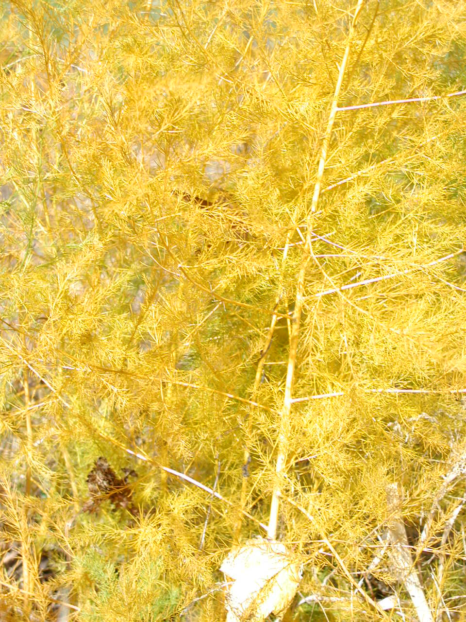 Asparagus in Autumn foliage